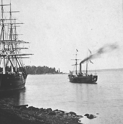 The only known photo of United States Coast Survey ship Active